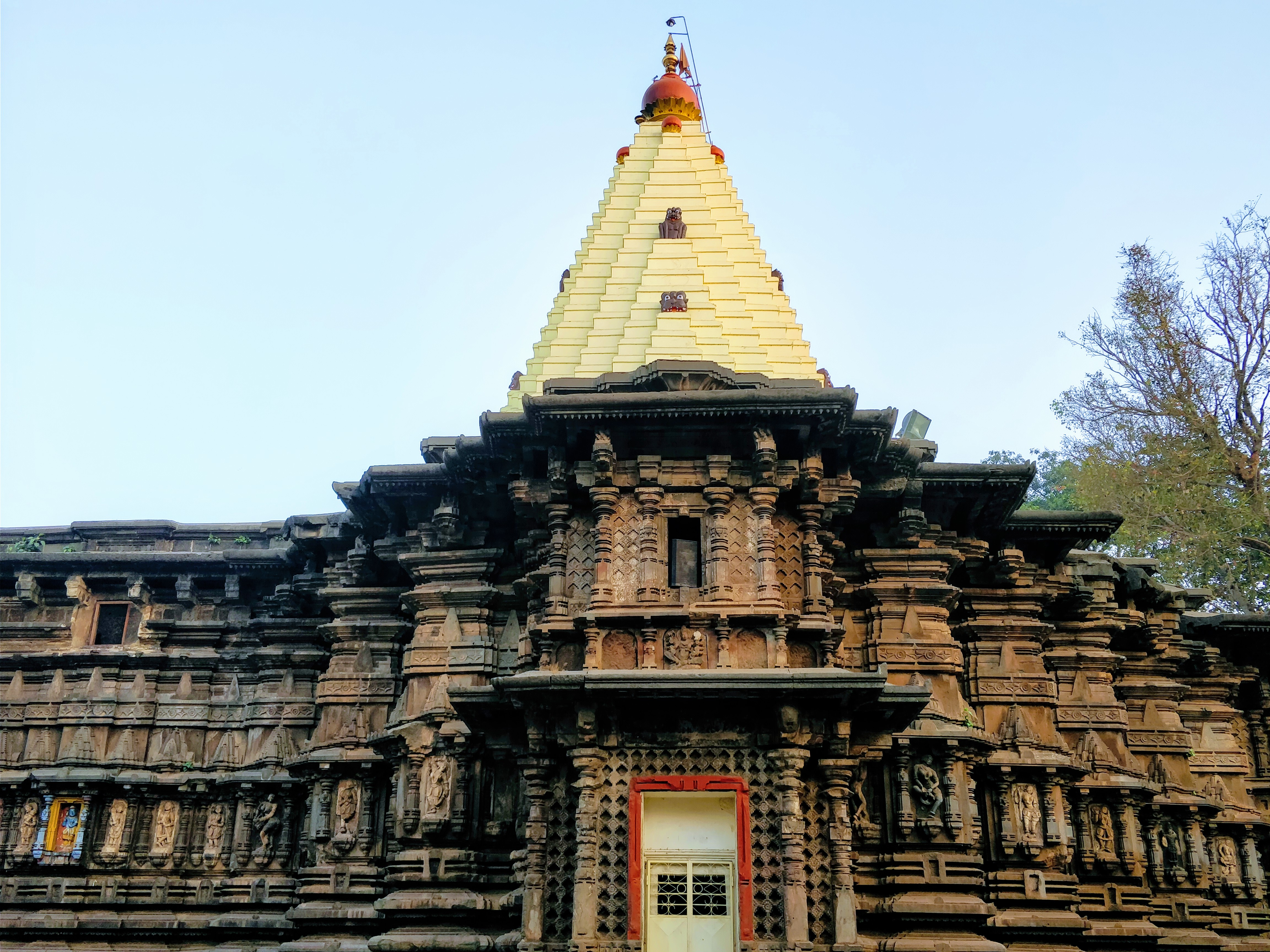 This is a South view of Mahalaxmi Mandir kolhapur. Old temple with made of creative work on the rocks.